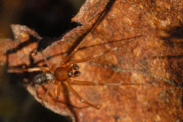 Palliduphantes ericaeus from Commanster, Belgian High Ardennes .